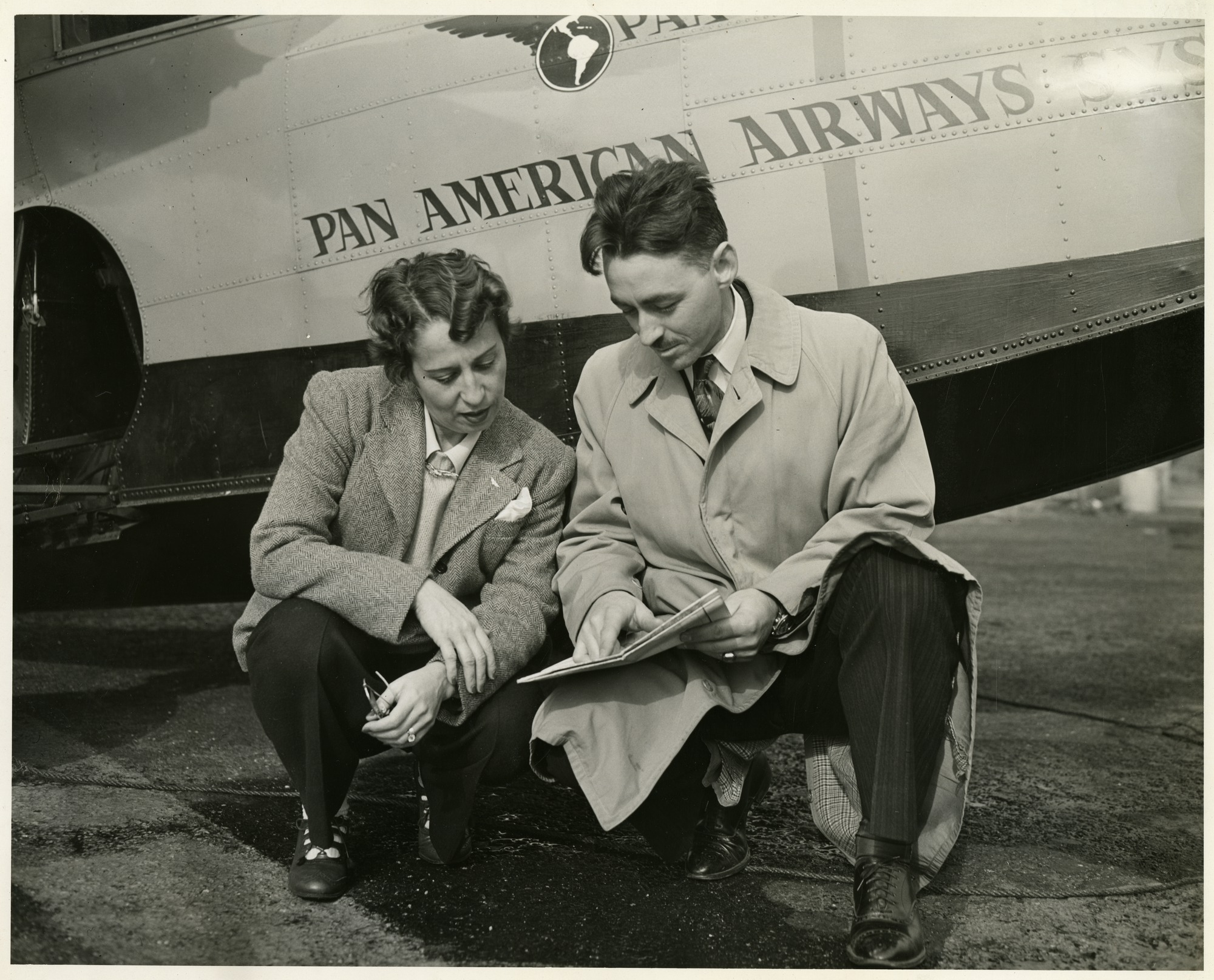 Subject: Machado, Anesia Pinheiro 1904-1999 Dionne, Donald Brazil Air Force Pan American World Airways, Inc Type: Black-and-white photographs Date: 1948 C. 1948 Topic: Women air pilots Local number: SIA Acc. 90-105 [SIA2008-5753] Summary: Brazilian aviation expert and pilot Anesia Pinheiro Machado (1902-1999) is shown with Pan American Airways senior instructor Donald Dionne. Machado was the first person to obtain a U.S. commercial pilot's license with additional ratings as instructor and for flying on instruments only; she was also an instructor for the Brazilian Air Force and commercial airlines. The Pan American Airways press release accompanying this photograph described how the appearance of the "petite newcomer" with "plenty of aviation 'know how'" had elicited a sense of wonder among the junior Clipper pilots at the flight school. She had made her first solo flight in 1922, at the age of 18 and was the first Brazilian woman to make a cross-country flight Cite as: Acc. 90-105 - Science Service, Records, 1920s-1970s, Smithsonian Institution Archives Persistent URL:Link to data base record Repository:Smithsonian Institution Archives View more collections from the Smithsonian Institution.